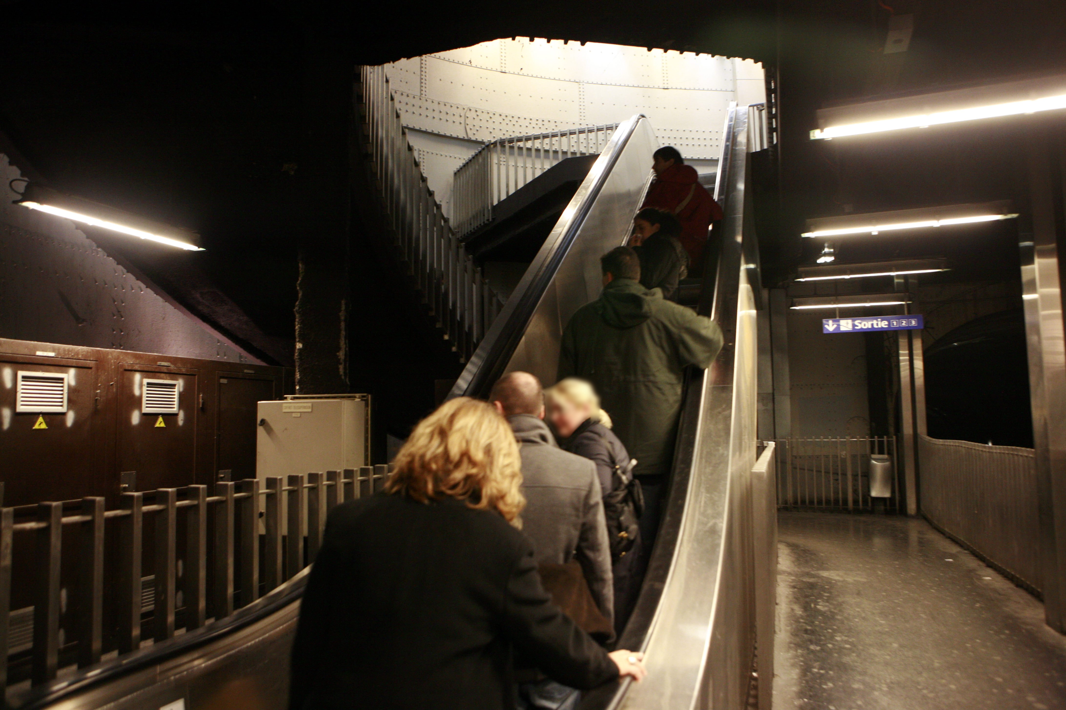 Saint-Michel station